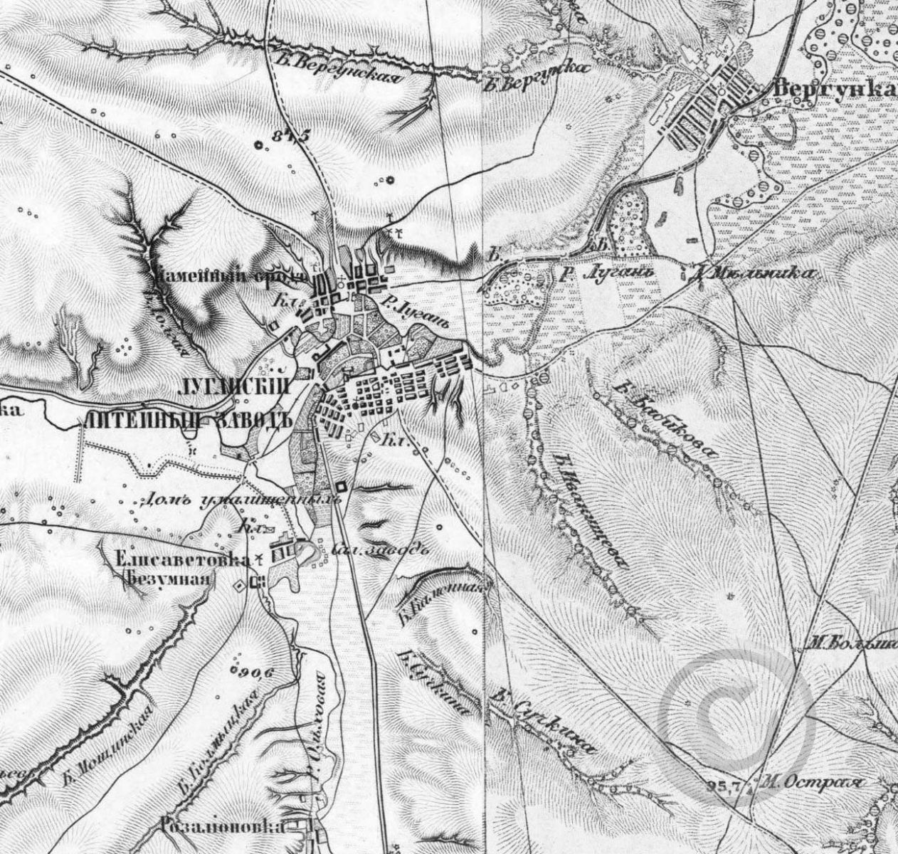 Map of Lugansk ironworks in 1913